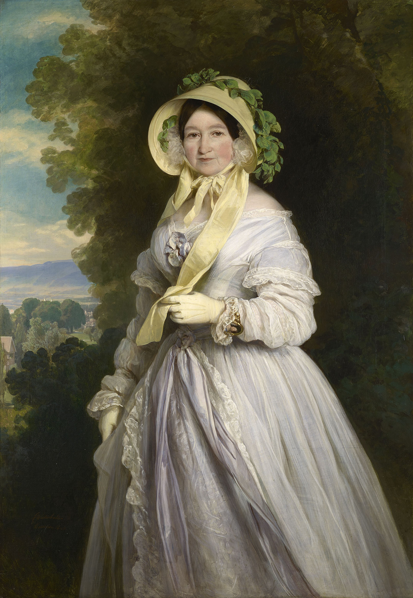 Grand Duchess Anna Fyodorovna of Russia (1781–1860), née Princess Julianne of Saxe-Coburg-Saalfeld. Winterhalter was born in the Black Forest where he was encouraged to draw at school. In 1818 he went to Freiburg to study under Karl Ludwig Schüler and then moved to Munich in 1823, where he attended the Academy and studied under Josef Stieler, a fashionable portrait painter. Winterhalter was first brought to the attention of Queen Victoria by the Queen of the Belgians and subsequently painted numerous portraits at the English court from 1842 till his death. Princess Juliane was the third daughter of Francis, Duke of Saxe-Coburg-Saalfeld and the aunt of both Queen Victoria and Prince Albert. In 1796 she married the Grand Duke Constantine of Russia, second son of Tsar Paul I, but it was not a success and they were divorced in 1820. She had already settled in Switzerland in 1813. Her niece Feodora wrote of her ‘life full of trials of all kind, her youth thrown away at that court, and now alone, amongst strangers here is indeed a bitter cup to the last…poor aunt, life must be a burthen to her; and her feelings are so young still’. Princess Juliane wears a bracelet on her left arm which contains a miniature of Queen Victoria, based on the Queen’s head in the painting by Sir George Hayter of her marriage (RCIN 407165). In the background is a view of Boissière, near Geneva, where the Princess was living. In her Journal for 17 August 1848 the Queen described the portrait as ‘an indescribably like & beautiful picture of Aunt Julia’. Signed and dated: F Winterhalter / Boissière 1848.